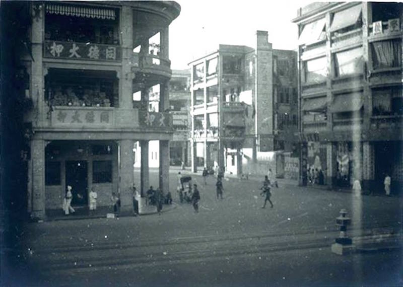 Historical image of the Tung Tak Pawn Shop at the corner of Hennessy Road and Marsh Road, Wan Chai in the 1930s